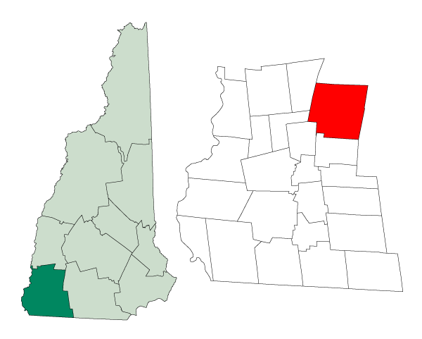 Map of a municipality in Cheshire County, New Hampshire